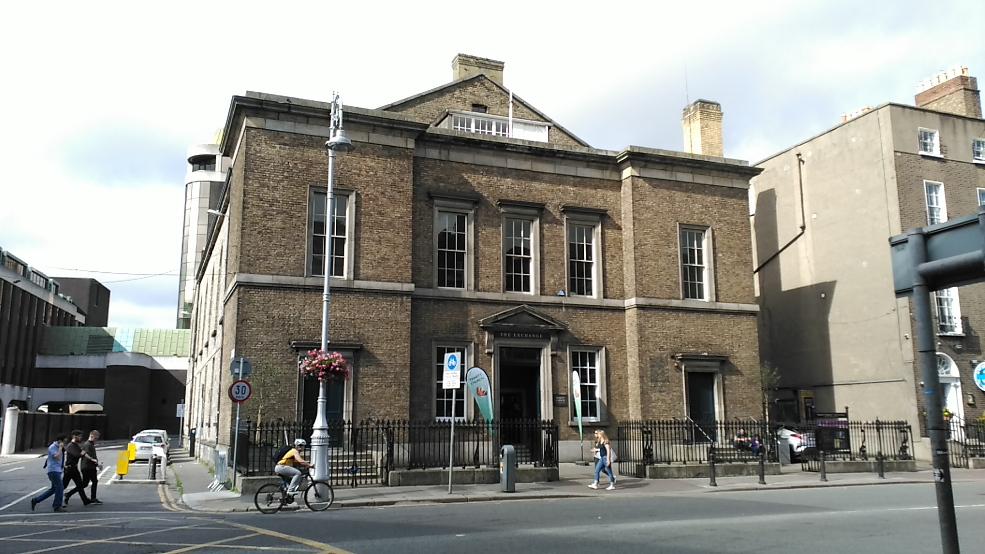 County Dublin, Trinity Church (Gardiner Street). Wikidata has entry Q55049799 with data related to this item.